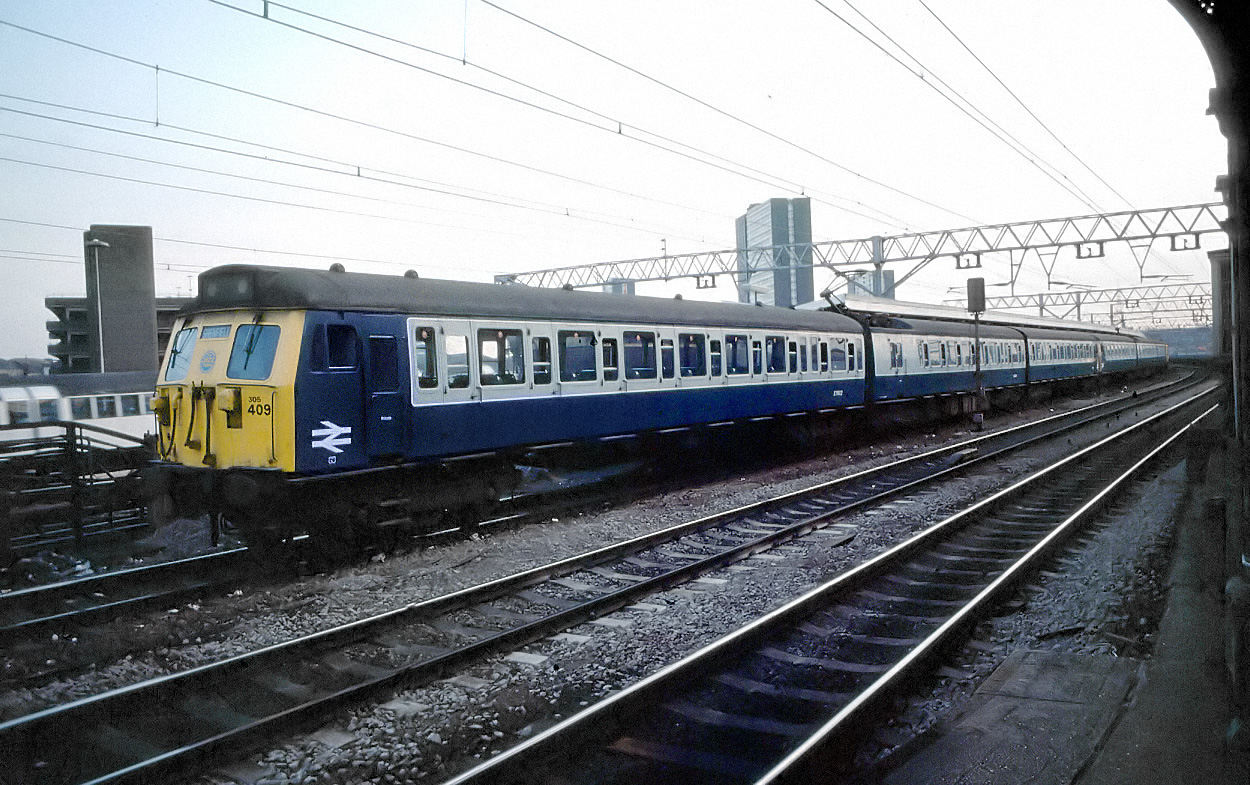 A failed (broken down) Class 305 train at platform 8 of Stratford station. In the background can be seen part of a London Transport Central Line 1962 stock tube train. The tracks in the foreground were (at the time) used by trains which did not call at Stratford.